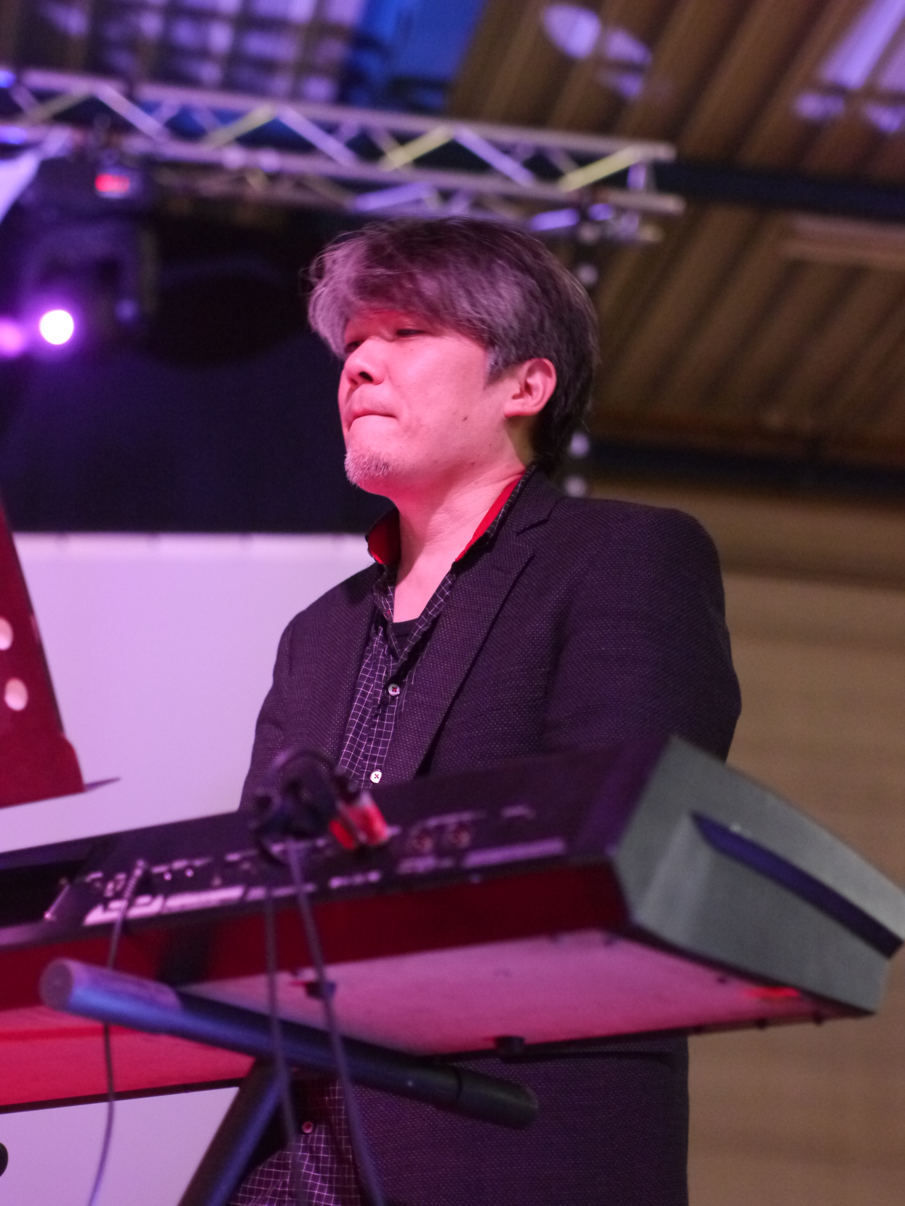 Toulouse Game Show Festival, 6th edition.